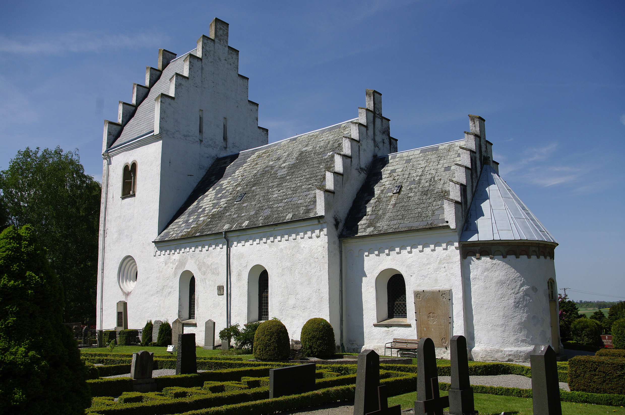 Skabersjo church in Scania near Malmo, Sweden.